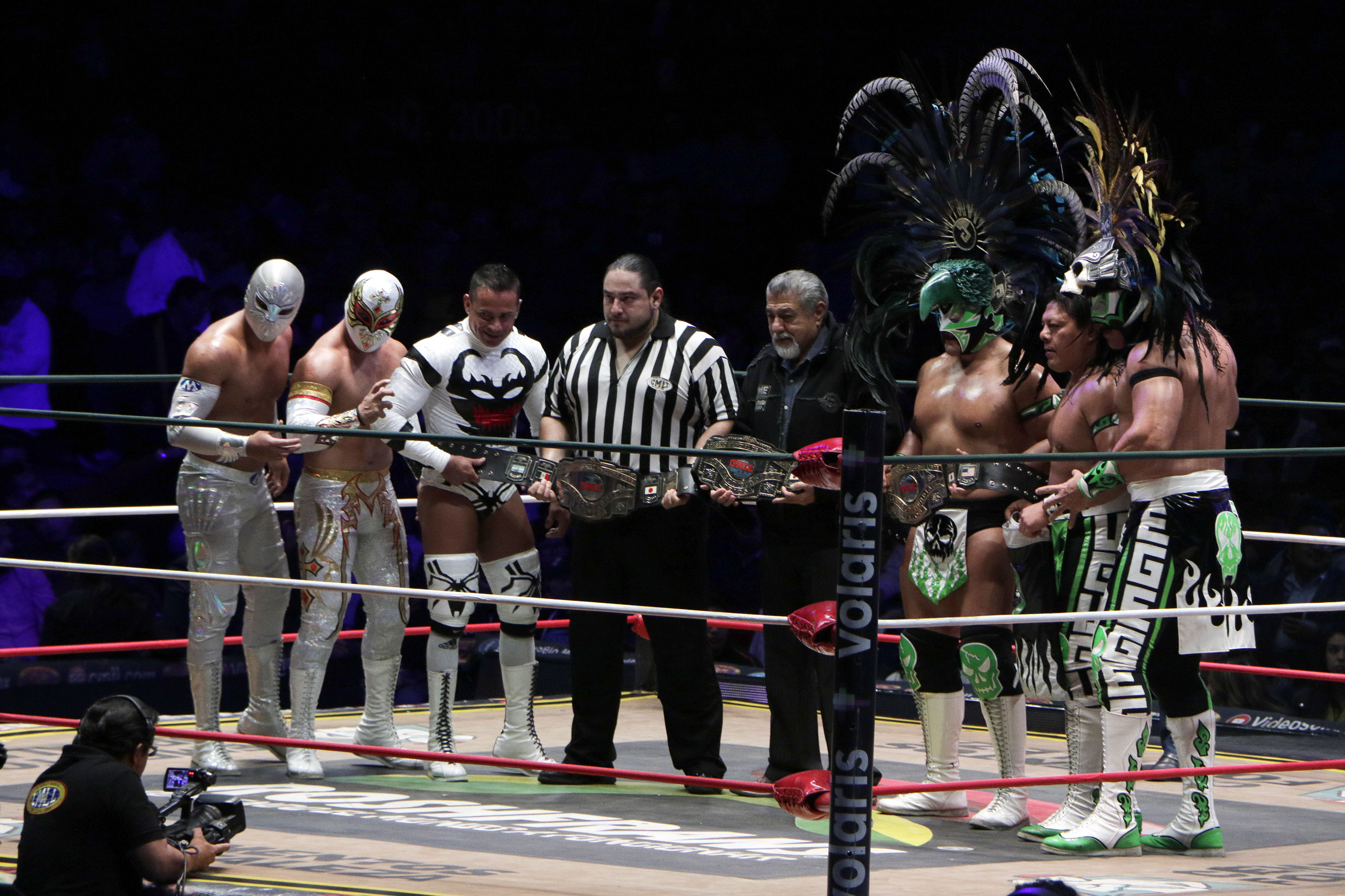 Professional wrestlers Ultimo Guerrero, Gran Guerrero, Euforia, Volador Jr., Mistico and Caristico all in the ring prior to a title match